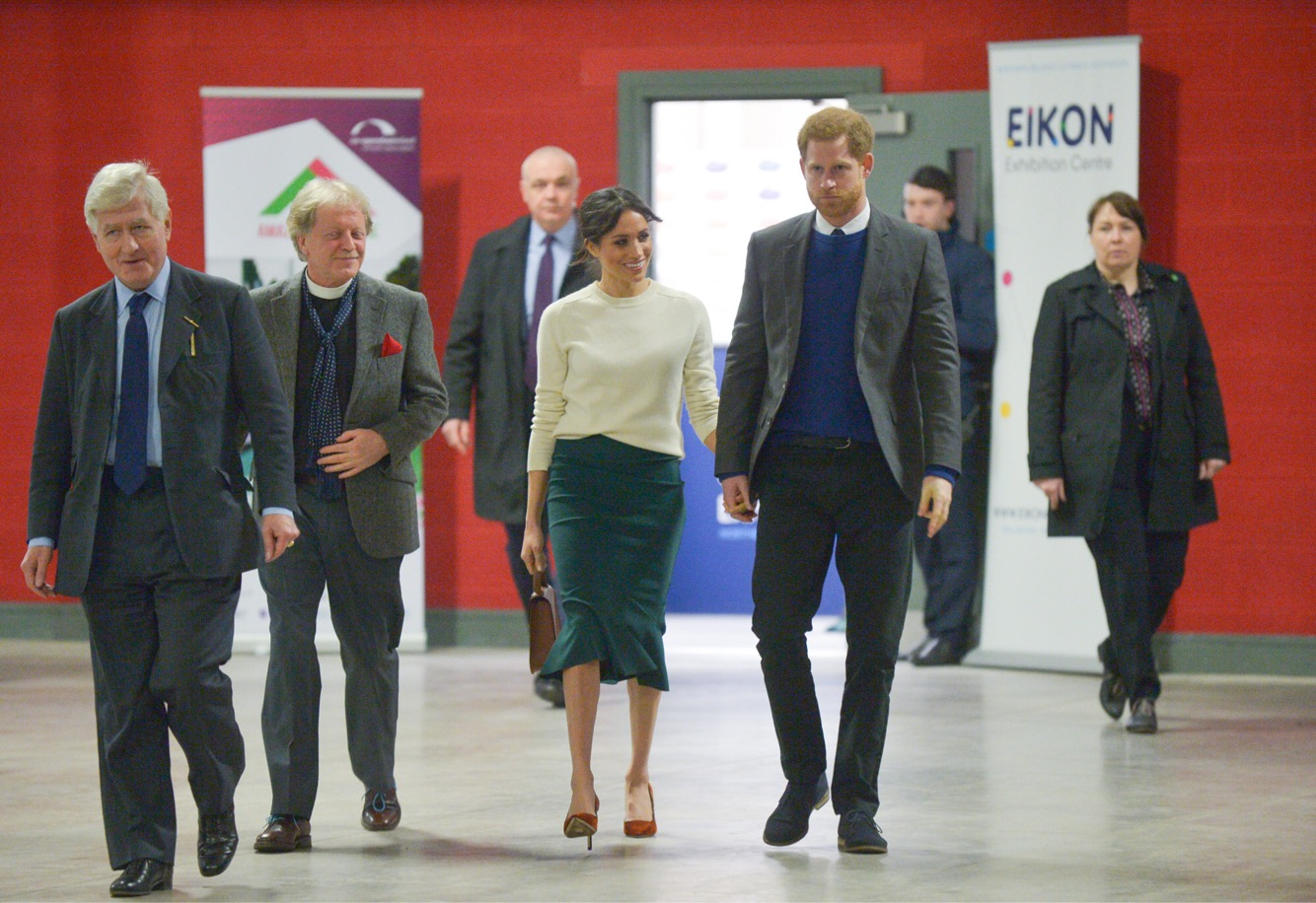 Visiting Belfast city centre during their first visit to Northern Ireland on 23 March 2018, Prince Harry and Ms. Markle Markle begin their first visit to Northern Ireland at the Eikon Centre at an event celebrating the youth-led peace-building initiative ‘Amazing the Space’ and showcasing groundbreaking cross community and reconciliation work from young people across Northern Ireland. Launched by Prince Harry in September 2017, ‘Amazing the Space’ empowers young people across Northern Ireland to become ambassadors for peace within their communities.